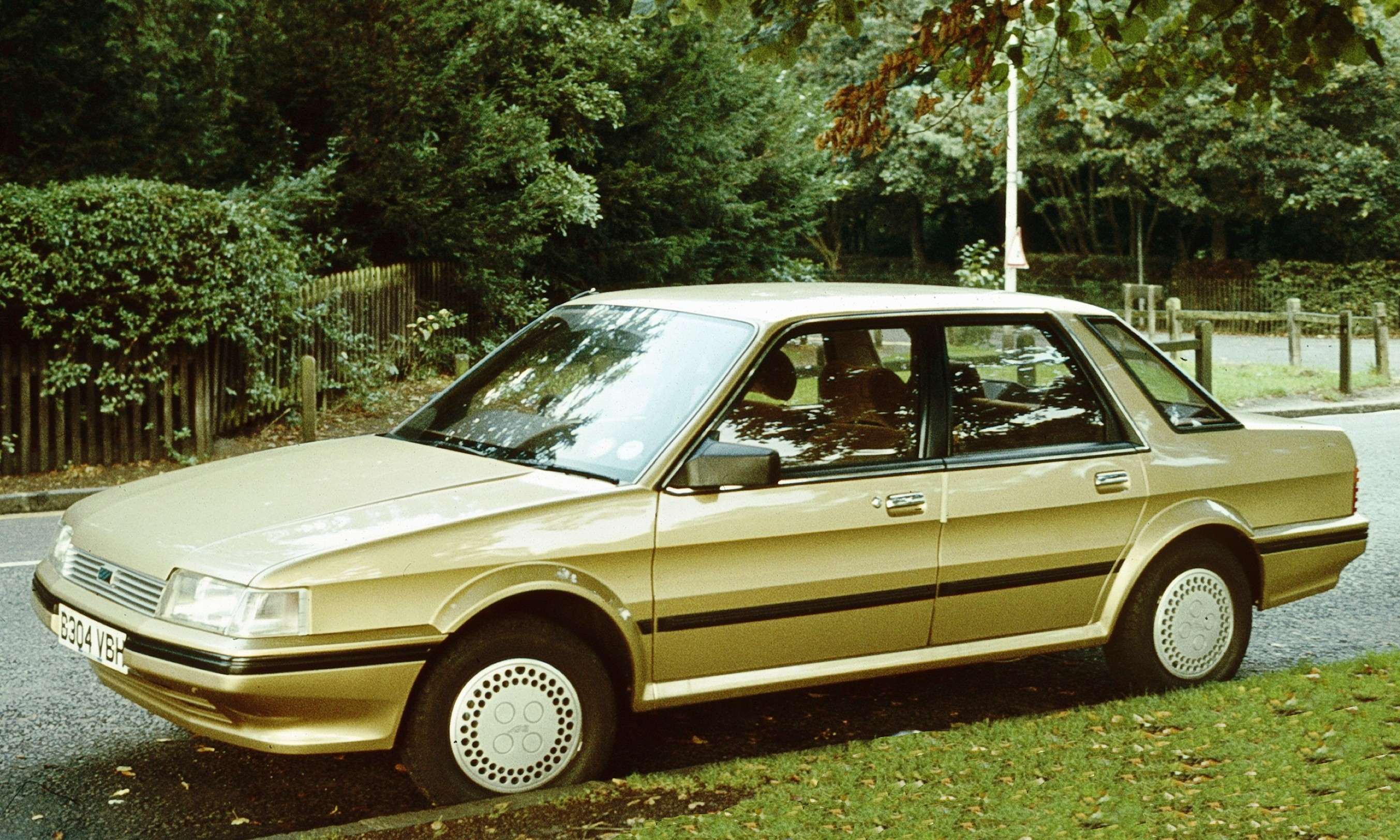 Austin Montego when new in Cambridge DVLA data: Date of first registration August 1984 Year of manufacture 1984 Cylinder capacity 1598 cc Date of last "logbook" issuance 12 January 1994 Car tax due (and apparently unpaid) since March 1995